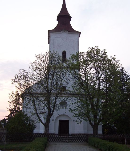 Reformated church in Szakoly, Hungary